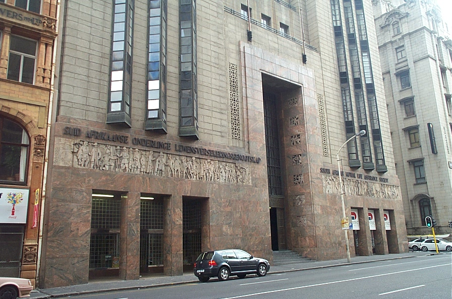 The original Old Mutual headquarters in Cape Town. Today this building is a residential block of apartments.